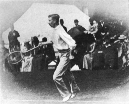 Harry Sibthorpe Barlow (1860-1917), English tennis player, Wimbledon doubles champion in 1892. Picture was made in Dublin in 1890.